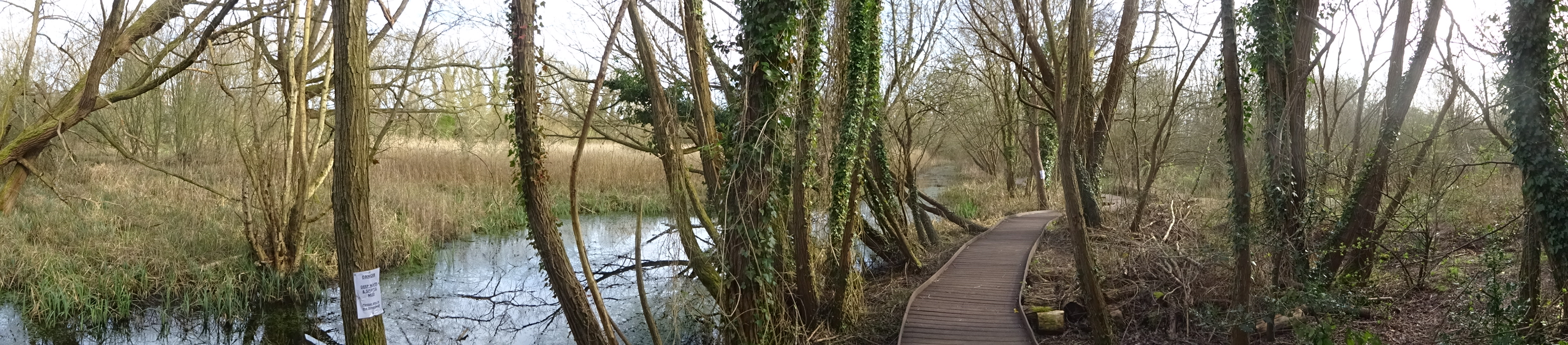 View at the Trap Grounds, Oxford, England.